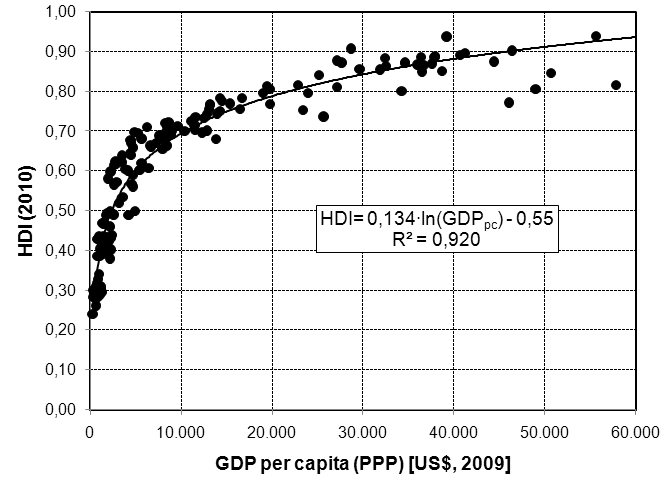 HDI (UN Human Development Index, 2010) versus GDP per capita (Gross Domestic Product, per capita, Pruchasing Power Parity, 2009).